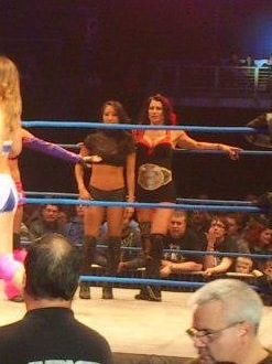 Victoria (Lisa Marie Varon, right) as the TNA Women's Knockout Champion in February 2013, prior to a tag team match with Gail Kim. Cropped from original photo.